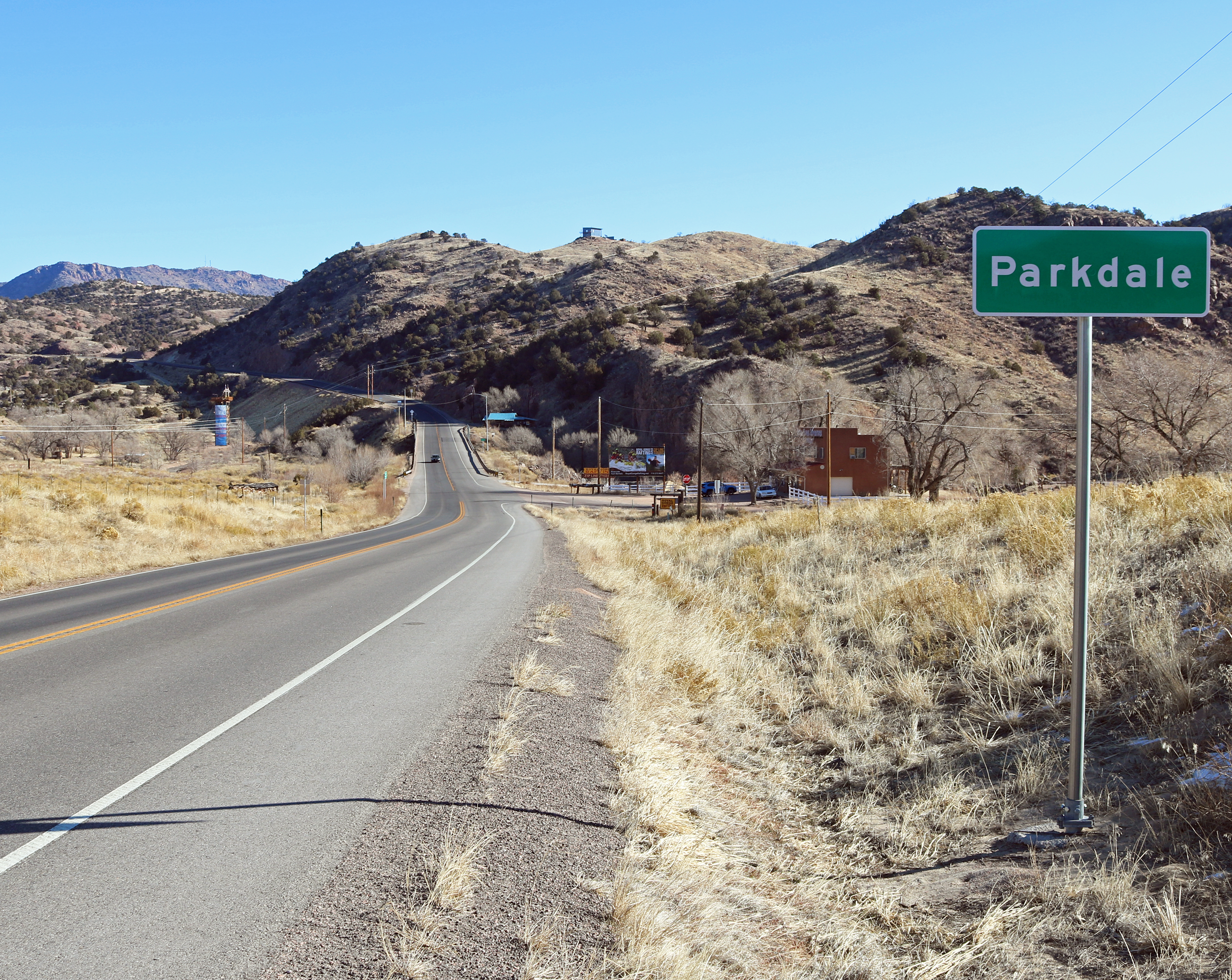 The community of Parkdale, Colorado in Fremont County. The road in the picture is U.S. Highway 50. The Arkansas River flows under the sloped bridge in the center-left of the picture.